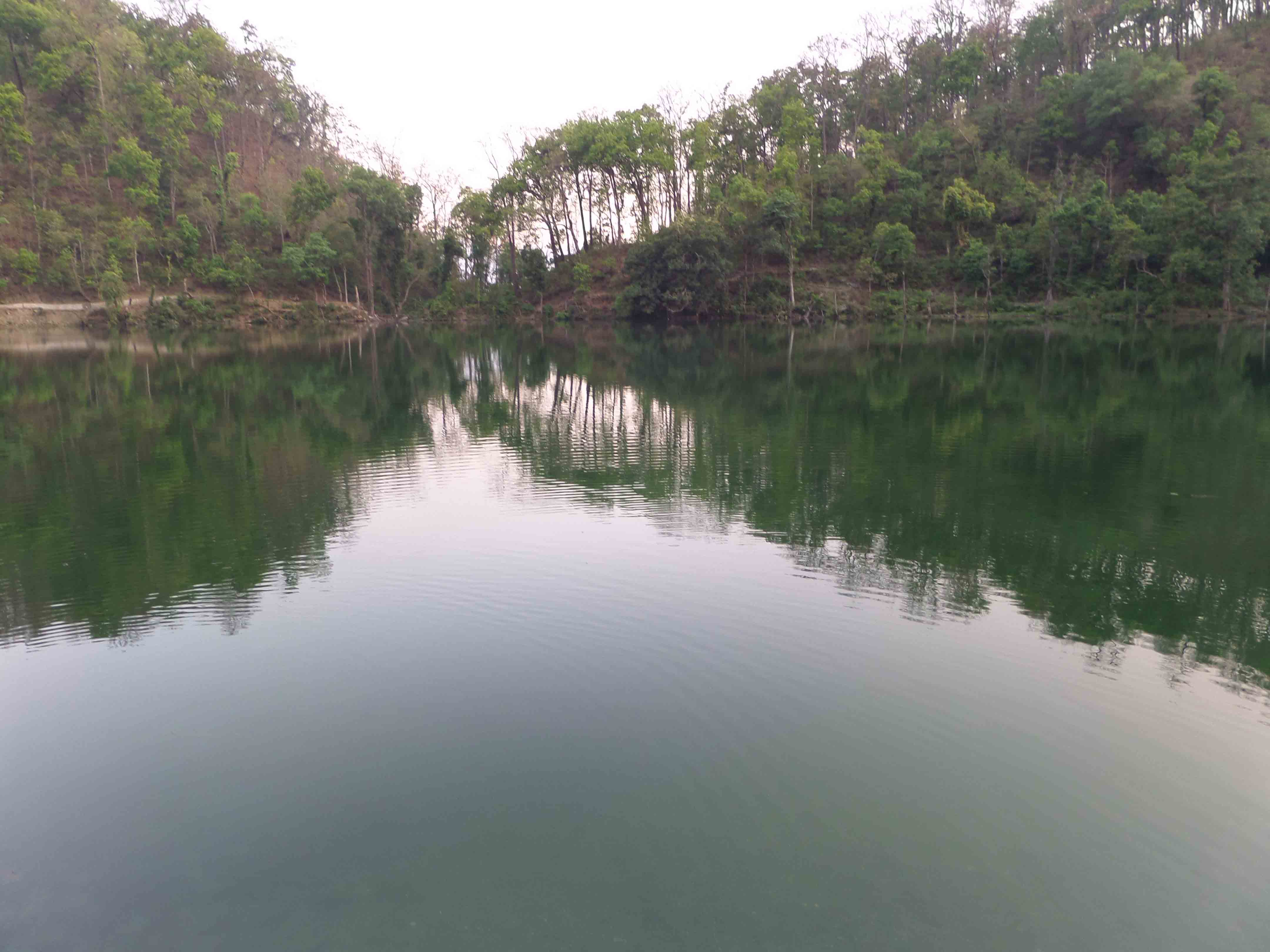 Aalital Lake in Dadheldhura district below the Mahabharat range. Lake has historical and religious importance. The Aalital is located at a height of 800m from the sea level is being buried by the soil dumped by the landslide from Mahabharata Mountain.